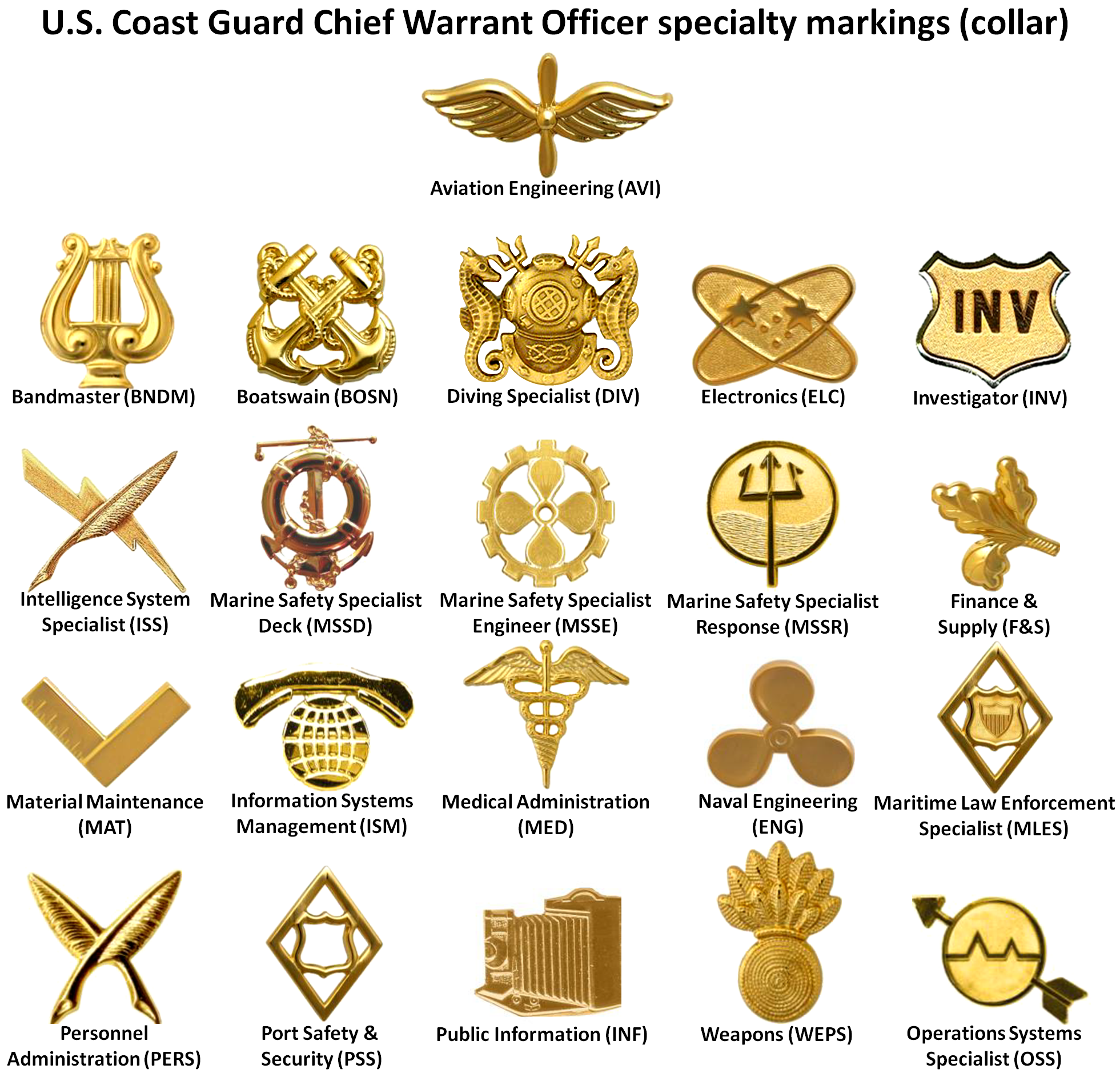 U.S. Coast Guard Warrant Officer specialty markings/insignia (collar devices)